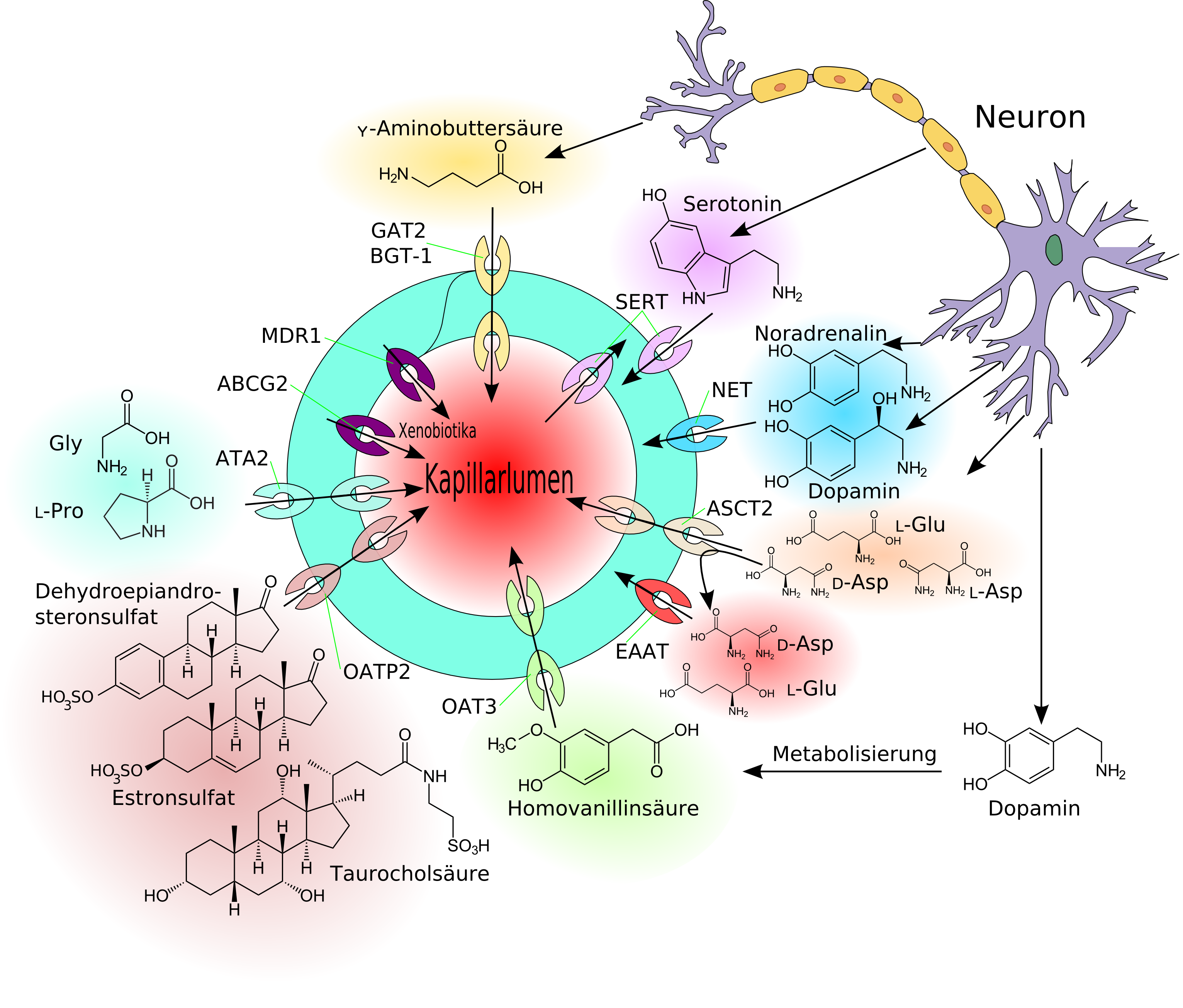 A sketch displaying the efflux transports at the blood-brain barrier. Inspired by a sketch from S. Ohtsuki: New aspects of the blood-brain barrier transporters; its physiological roles in the central nervous system. In: Biol Pharm Bull. 27, 2004, pp. 1489-1496. PMID 15467183